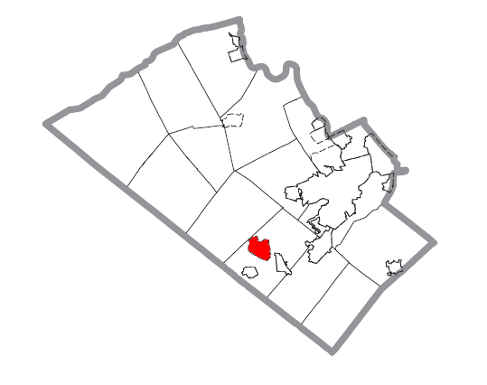 A map of Lehigh County showing Ancient Oaks highlighted on the map.